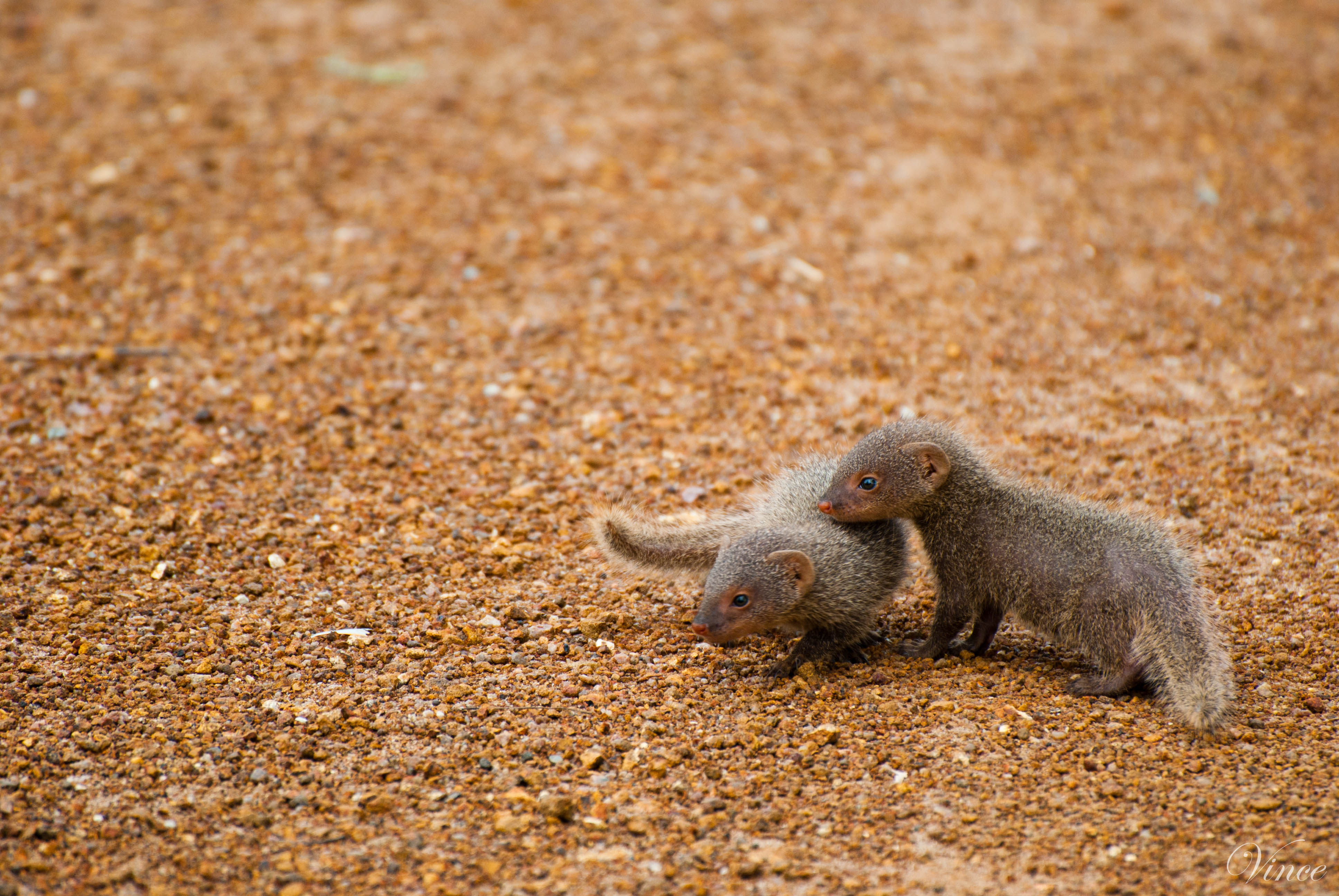 baby mongooses playing with each other